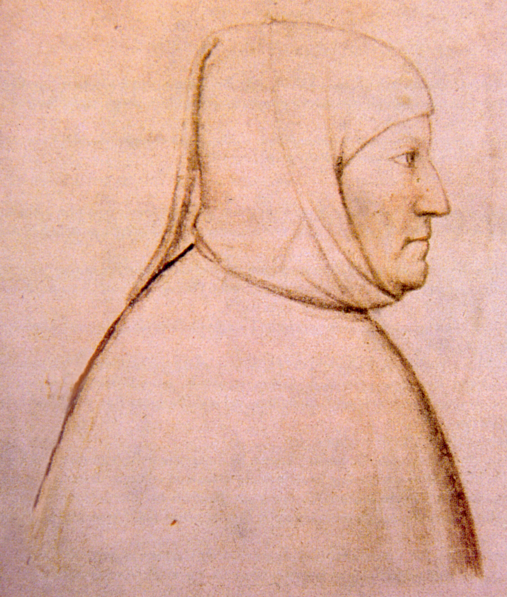 Portrait of Francesco Petrarca